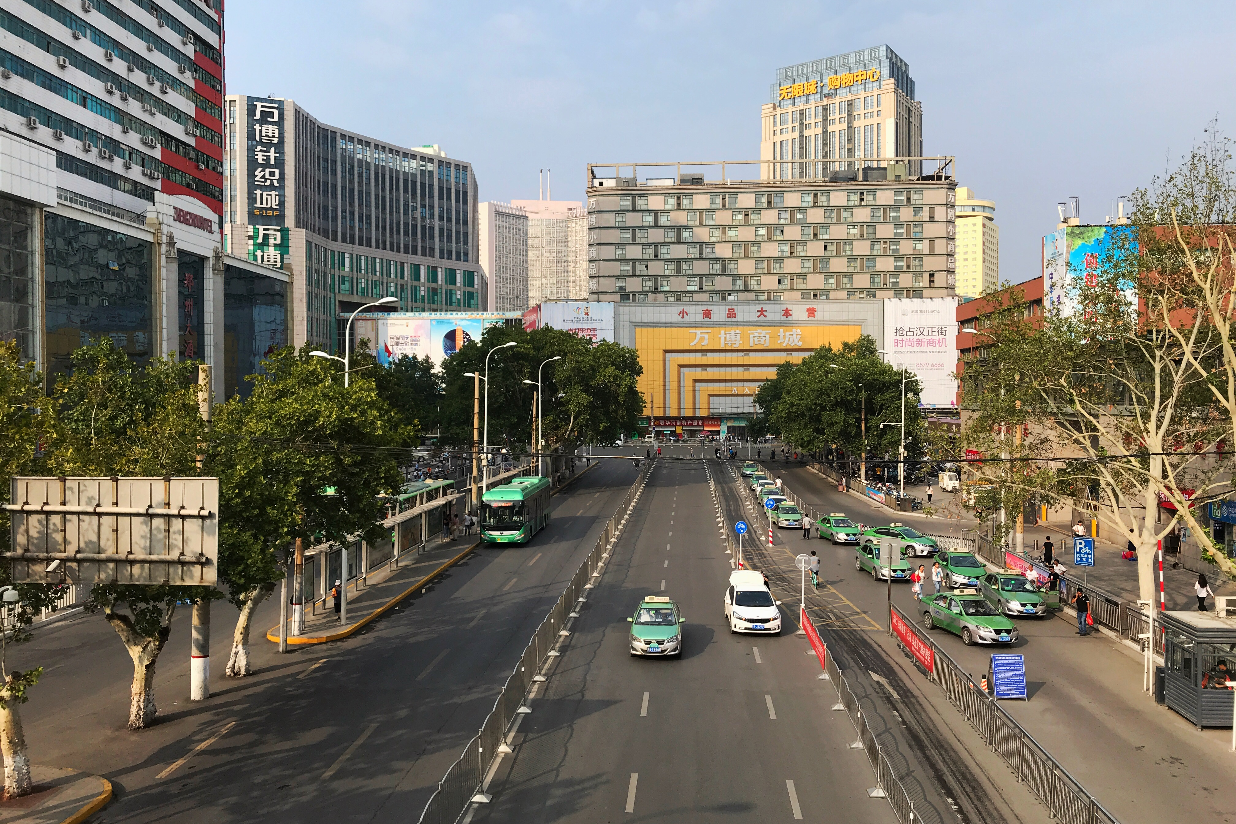 Xinglong Street in Zhengzhou